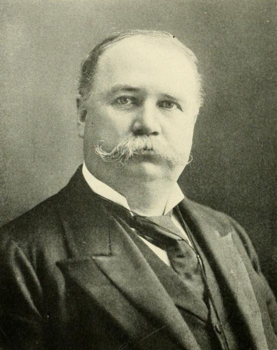 Senatoir Garret A. Hobart